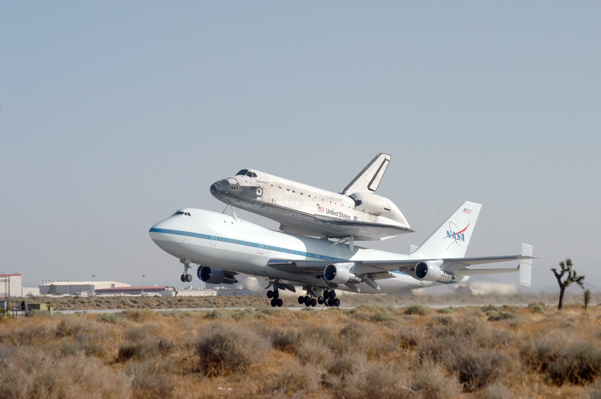 EDWARDS AIR FORCE BASE, Calif. -- Space Shuttle Discovery leaves Edwards on the back of a modified Boeing 747. The Aug 19 takeoff marked the first leg of the orbiter's cross-country trek to its home at Kennedy Space Center in Florida.